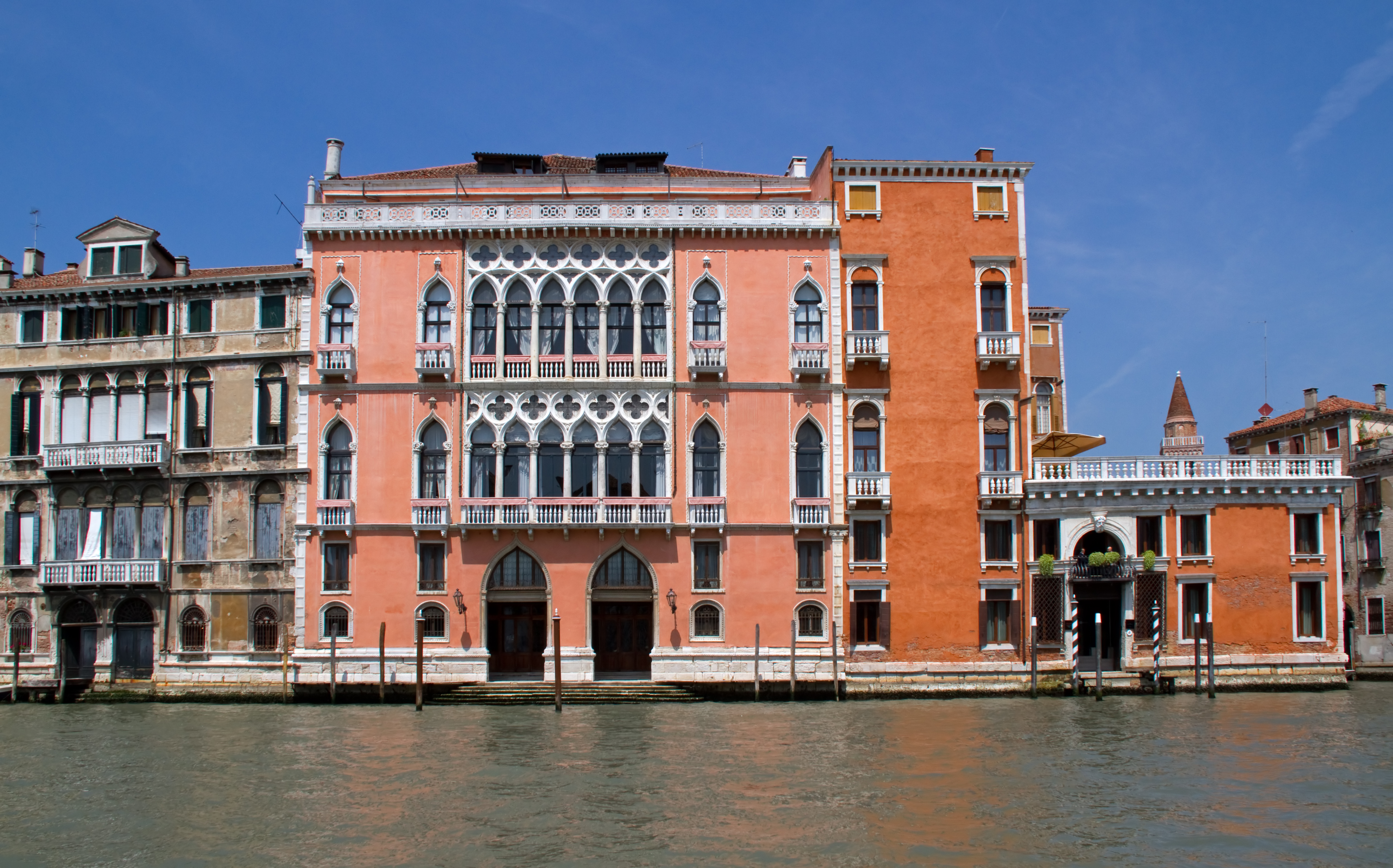 Grand Canal 4